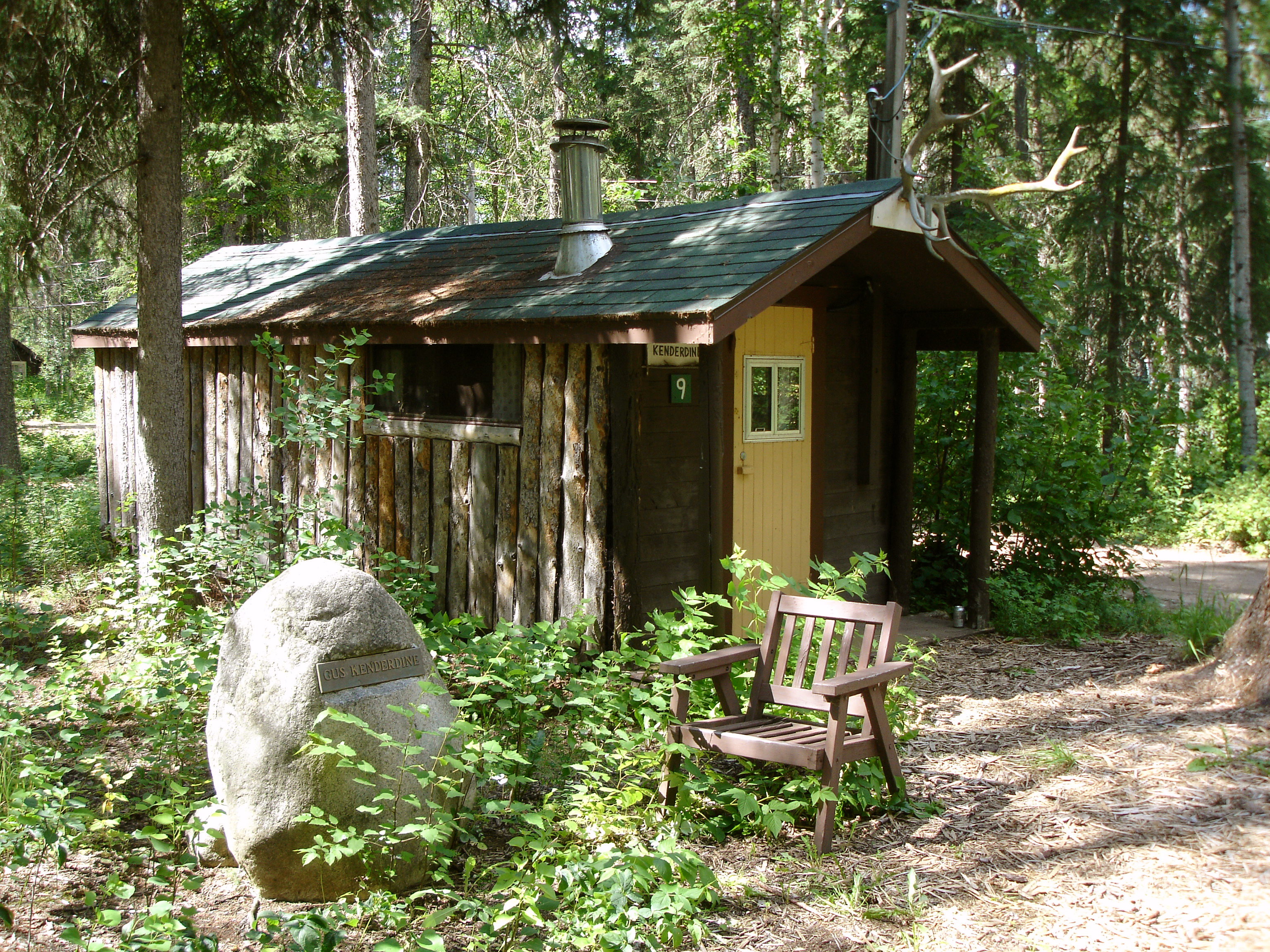 A photograph of Augustus Kenderdine's Cabin at what was the Murray Point Art School and what is now the Emma Lake Kenderdine Campus.